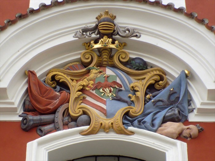 Shield of Zikmund Myslik